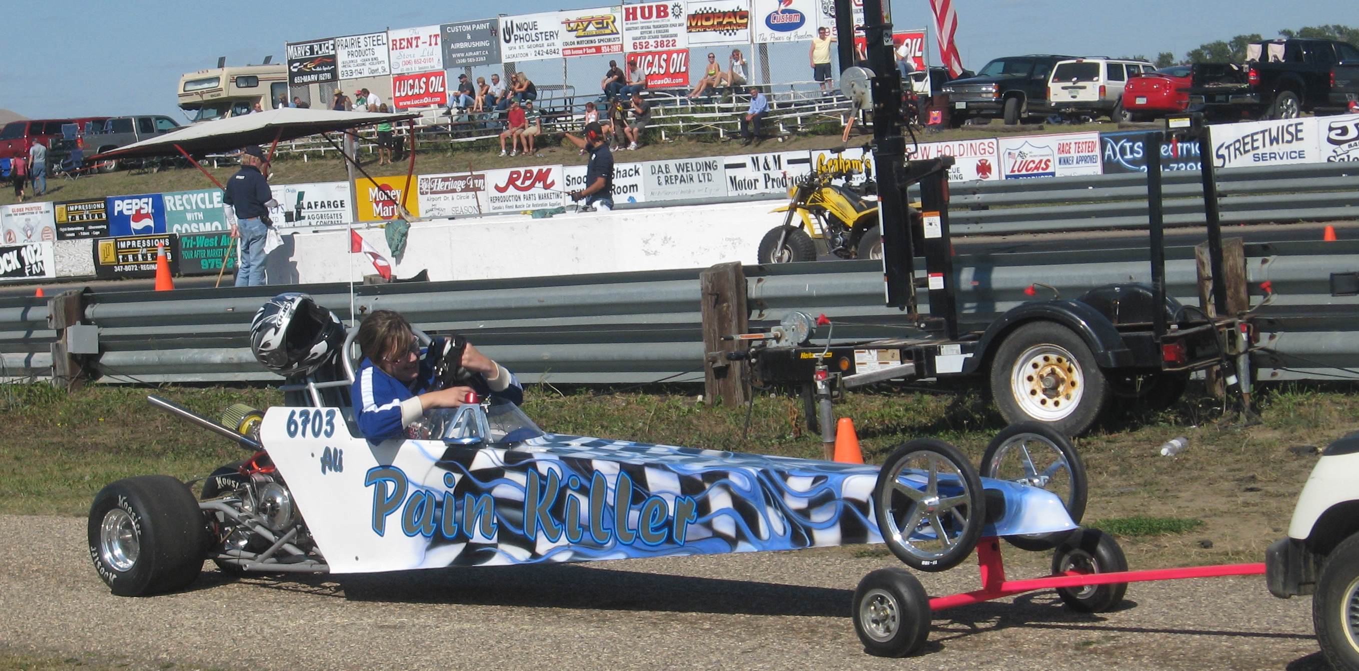 'Pain Killer' Junior Dragster at SIR, drag strip 13km from Saskatoon, SK, shot 23 Aug 2008. Note the driver (Aleisha Martin), helmet off, is still in the car, which is under tow on the return road, headed for the pits.